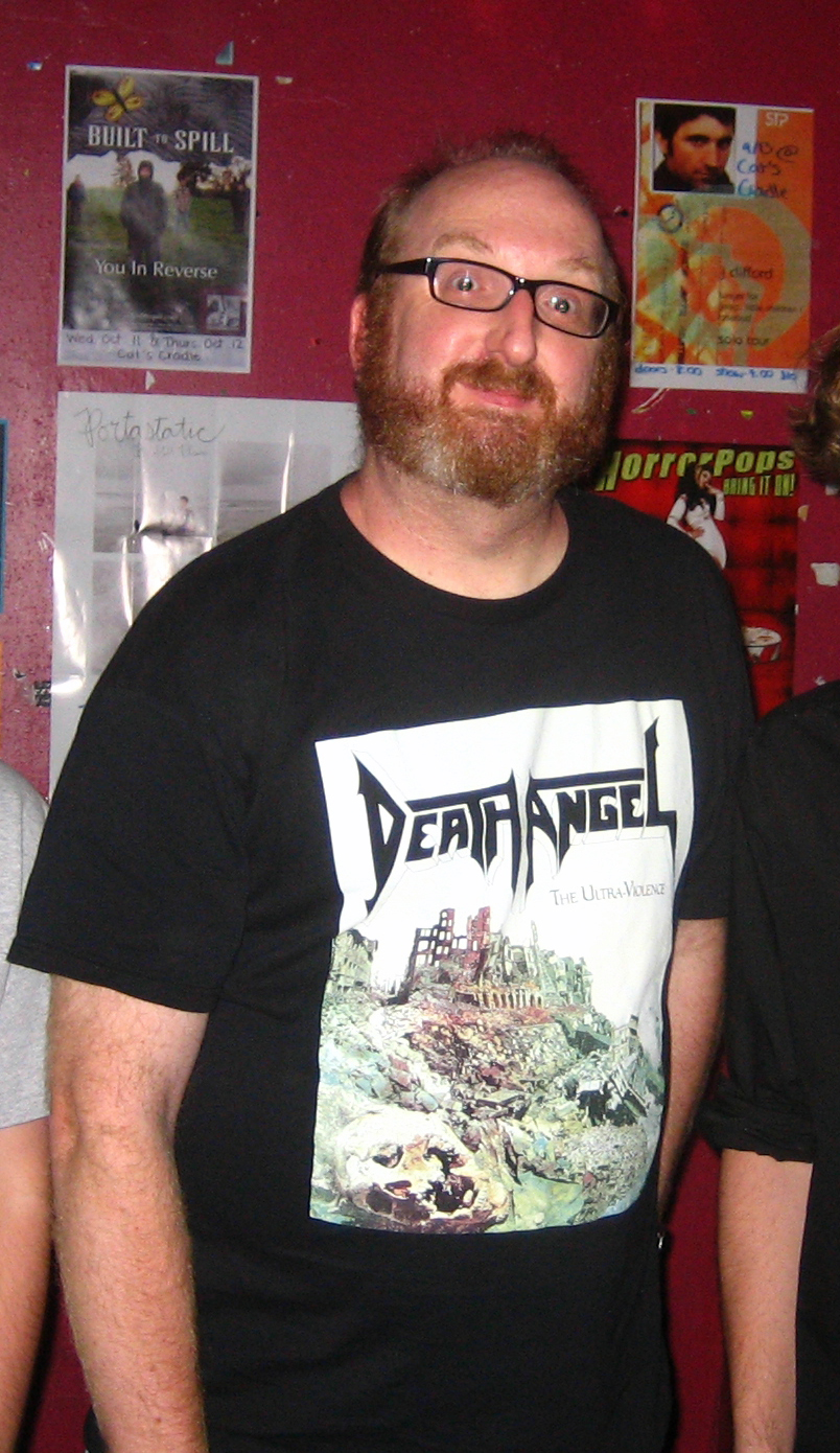 Crop of a photograph of comedian Brian Posehn with two fans.